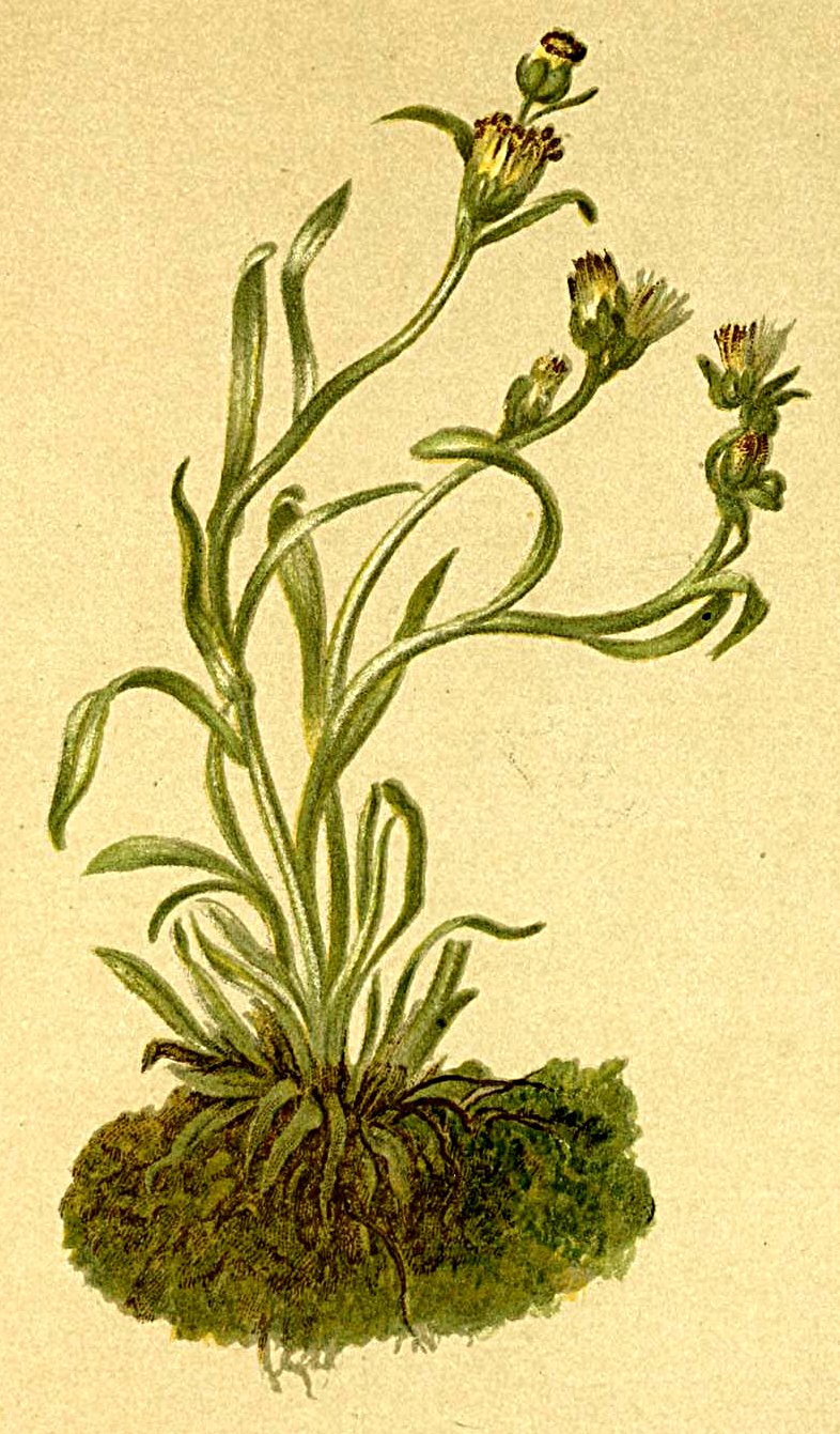 Gnaphalium hoppeanum (Omalotheca hoppeana)